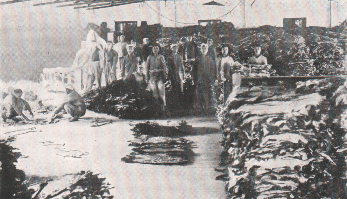 Emil Brass (German fur trader, consul, *1856; +1938): Aus dem Reiche der Pelze (From the Empire of Furs). Publisher: Neue Pelzwaren-Zeitung, Berlin 1911. 709 pages, cloth cover. 17,5 x 26 cm.